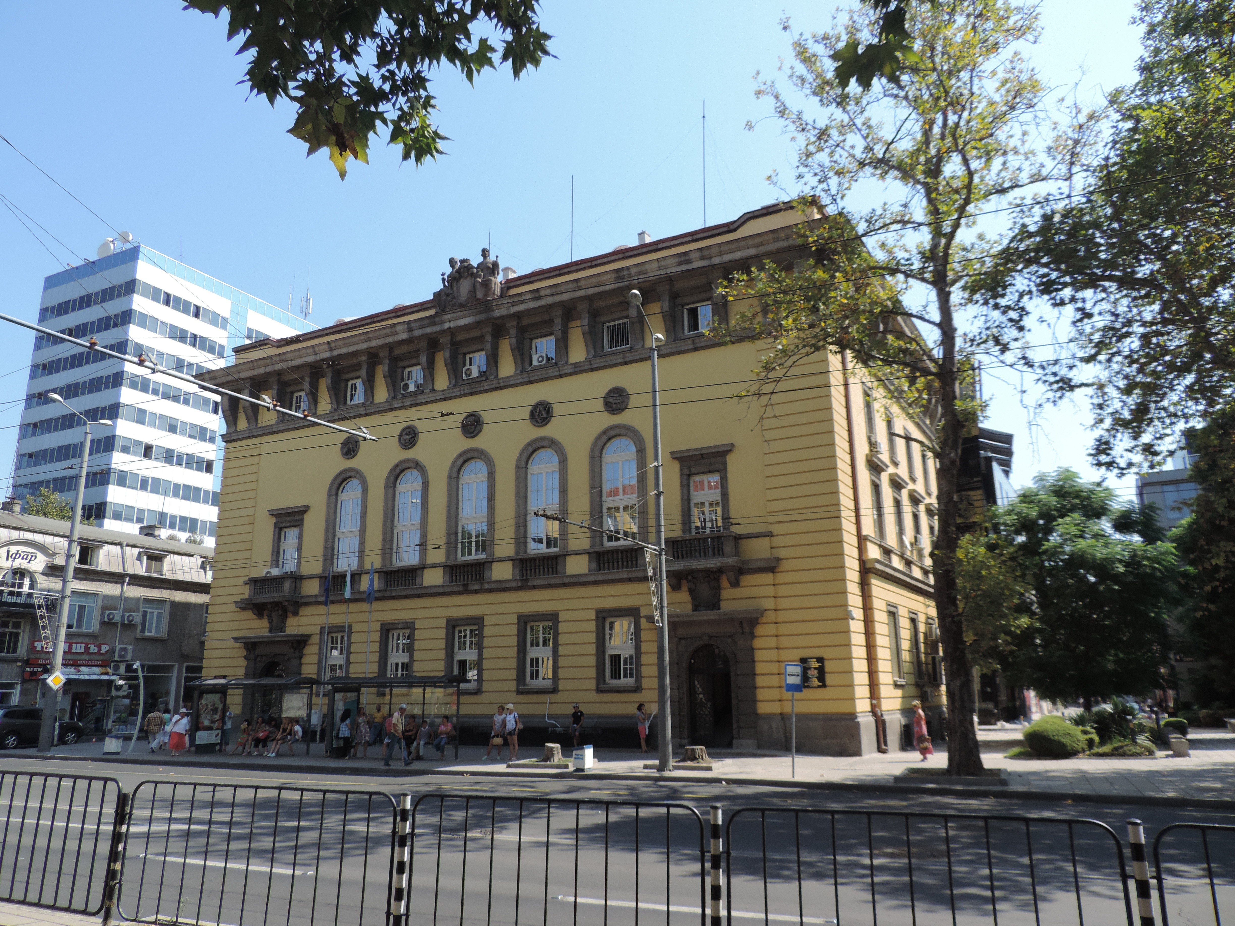 The building of Burgas Province administration, Burgas, Bulgaria